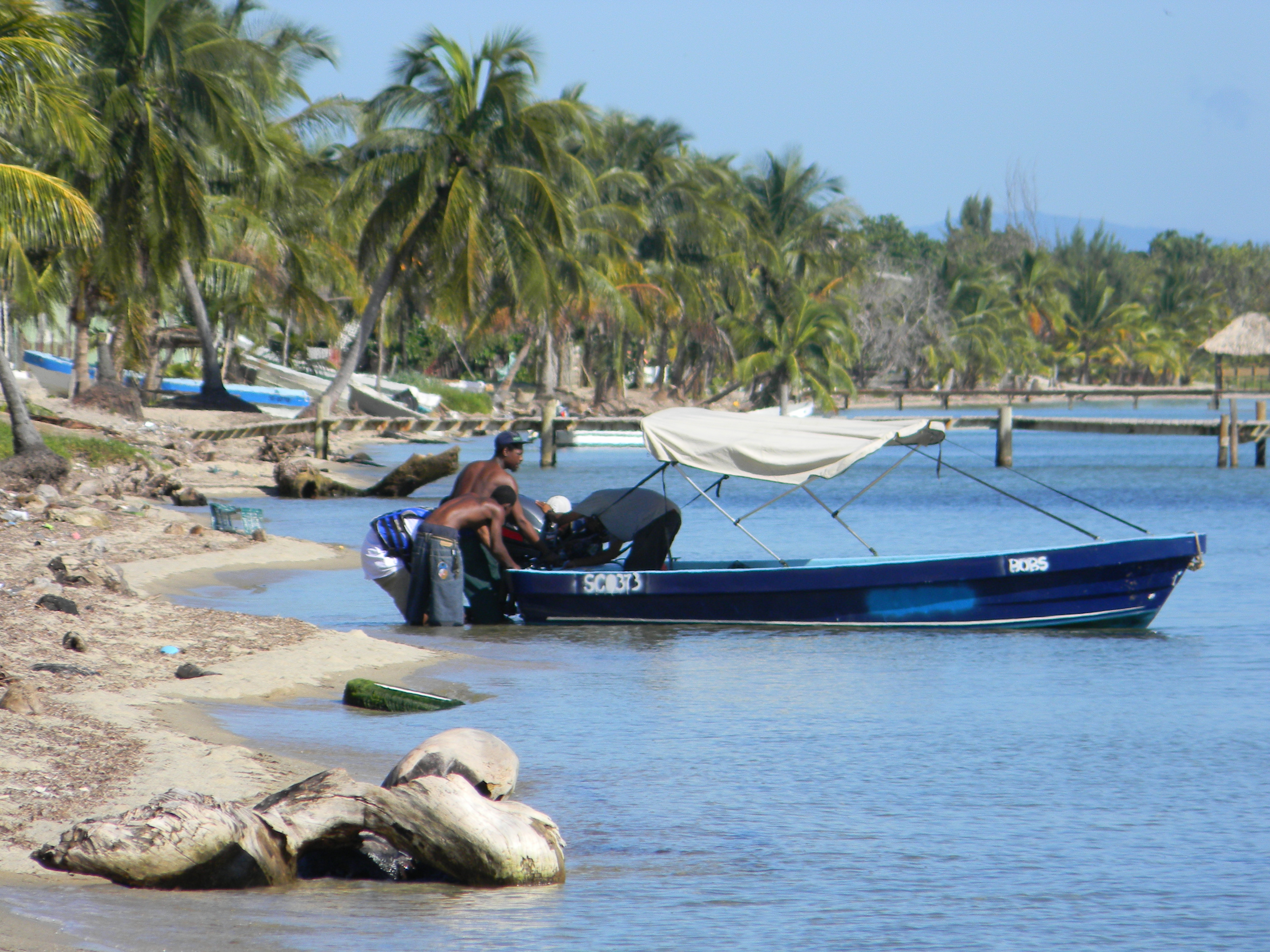 Fisherman's of Belize